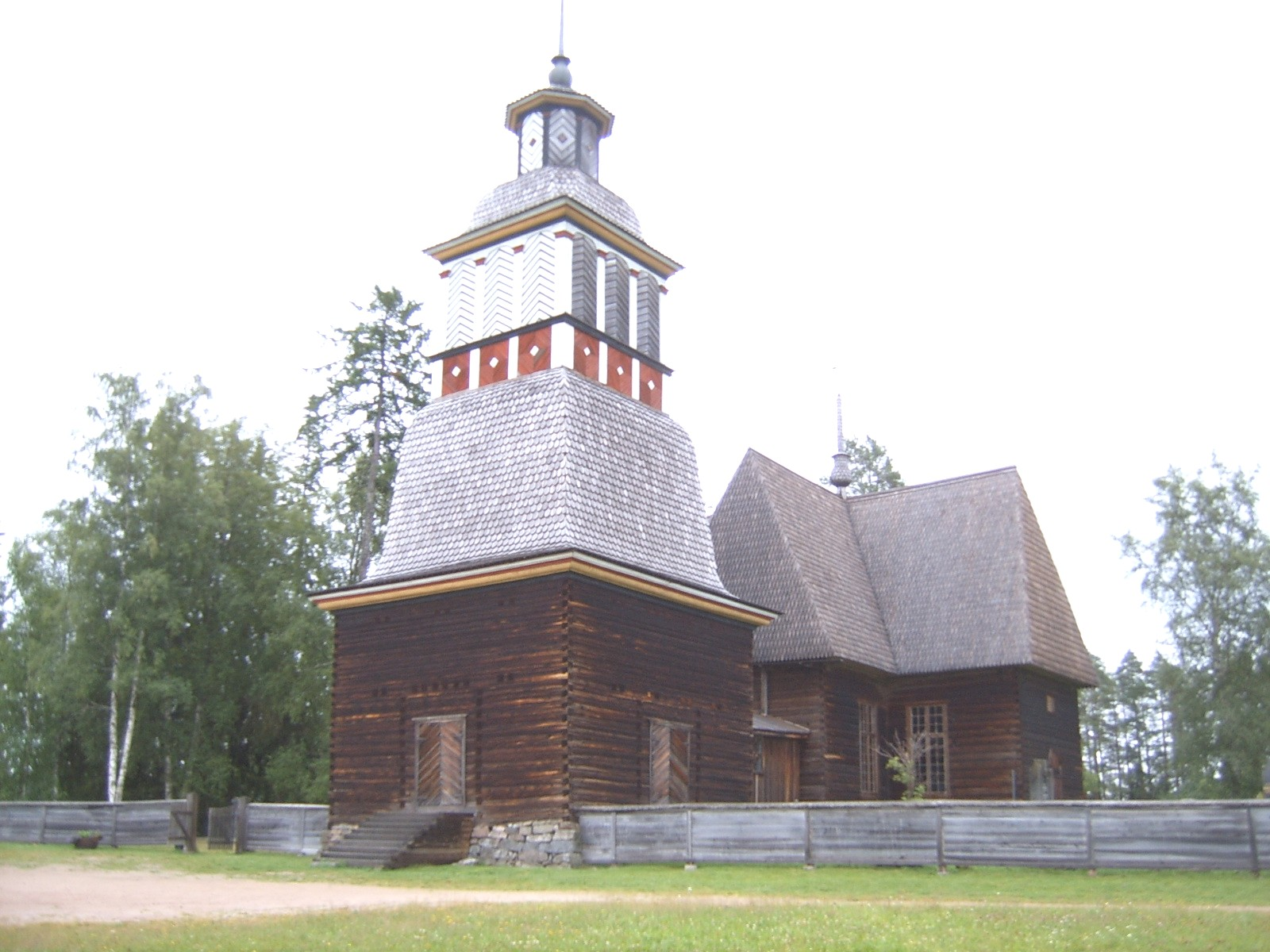 Petäjävesi Old Church, Finland, from south. Wooden church 1763–64, bell tower 1821. UNESCO World heritage site.